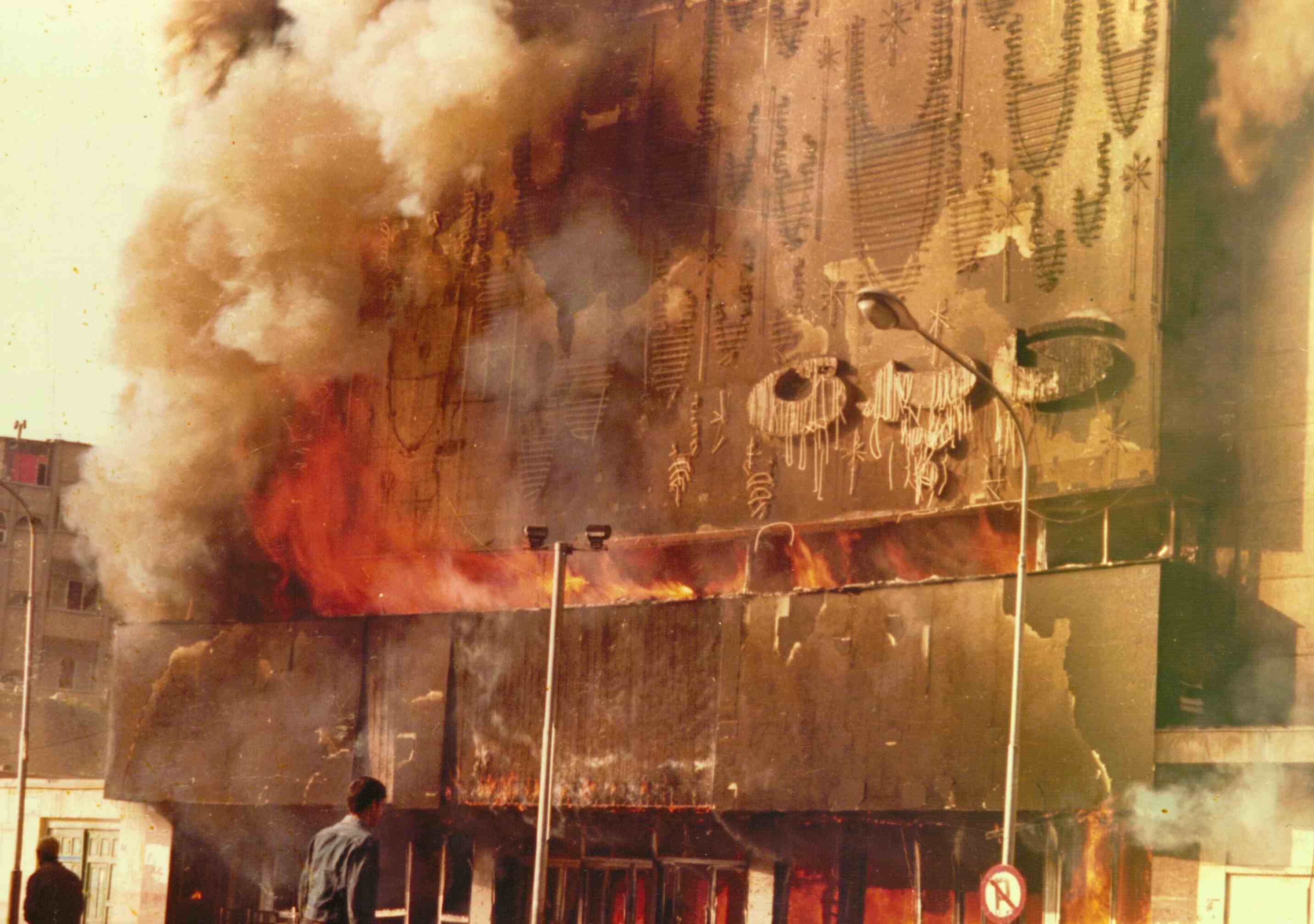 Burning building of Capri Cinema (Currently Cinema of Bahman) in 24th Esfand sq (Currently Enghelab sq) ,Tehran. a Sabotage activity during Iranian Revolution